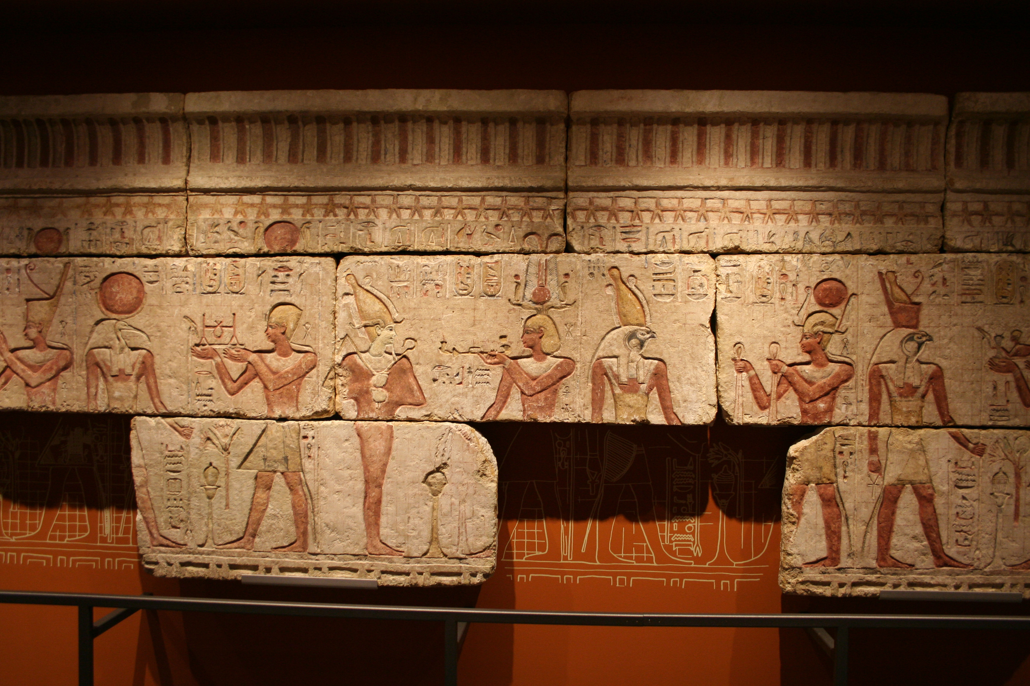 Roemer- und Pelizaeus-Museum, Hildesheim